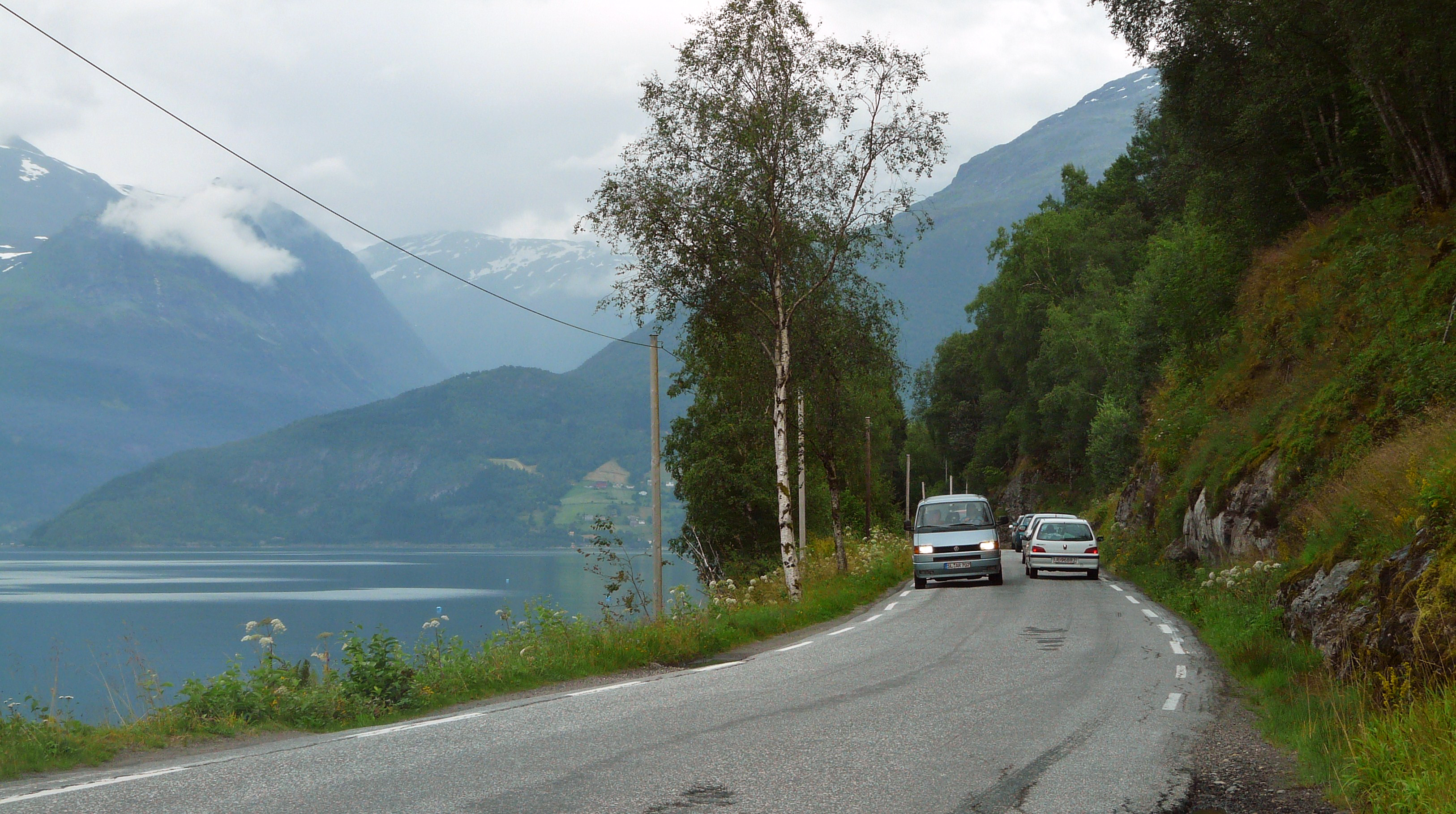 Riksveg 60 by the southern coast of Nordfjord and below Skarsteinfjellet in 2008 August.